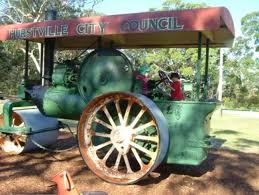 Oatley Park